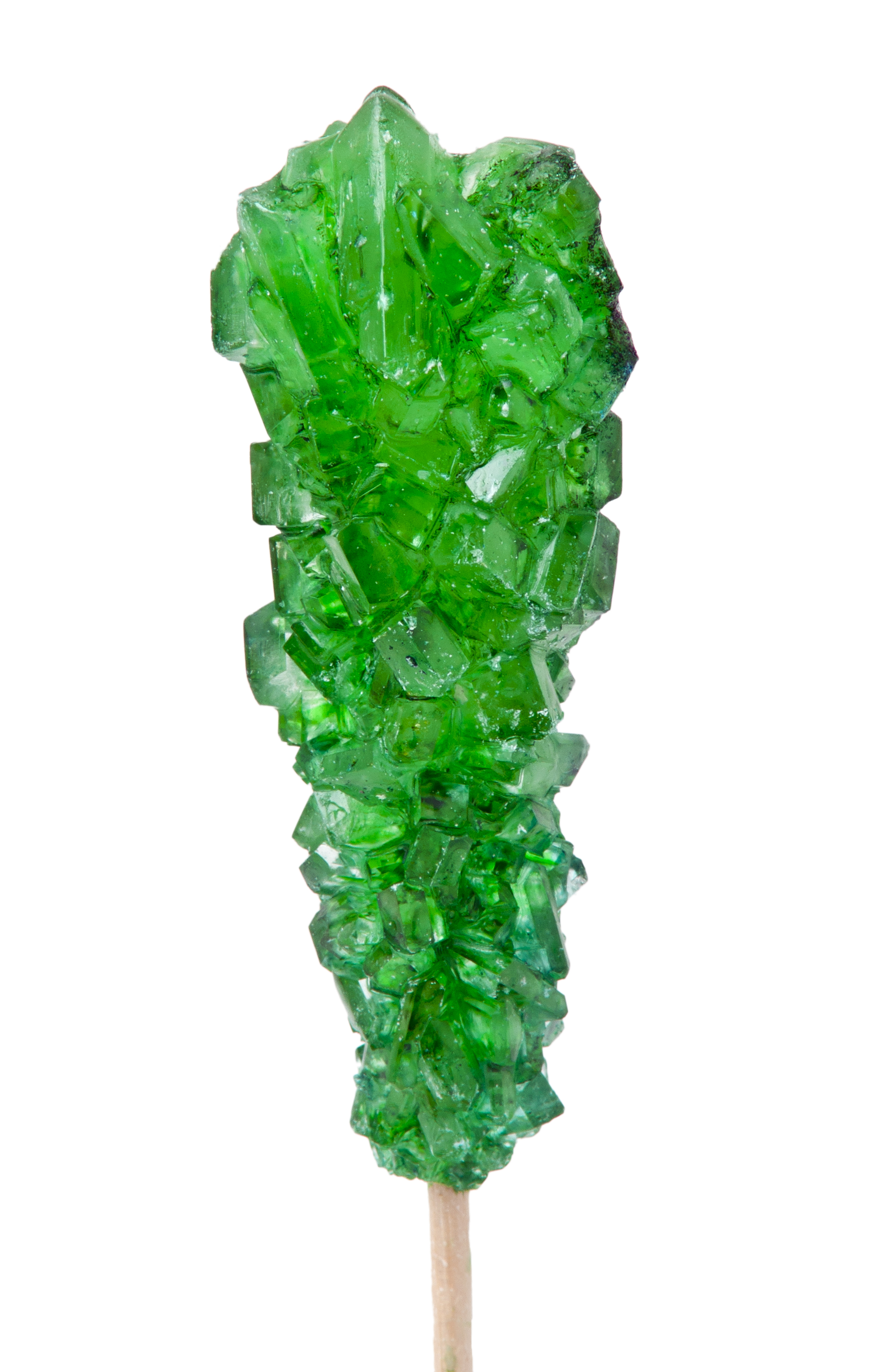 A close up of a piece of green rock candy, showing the enlarged crystal structure of sugar.